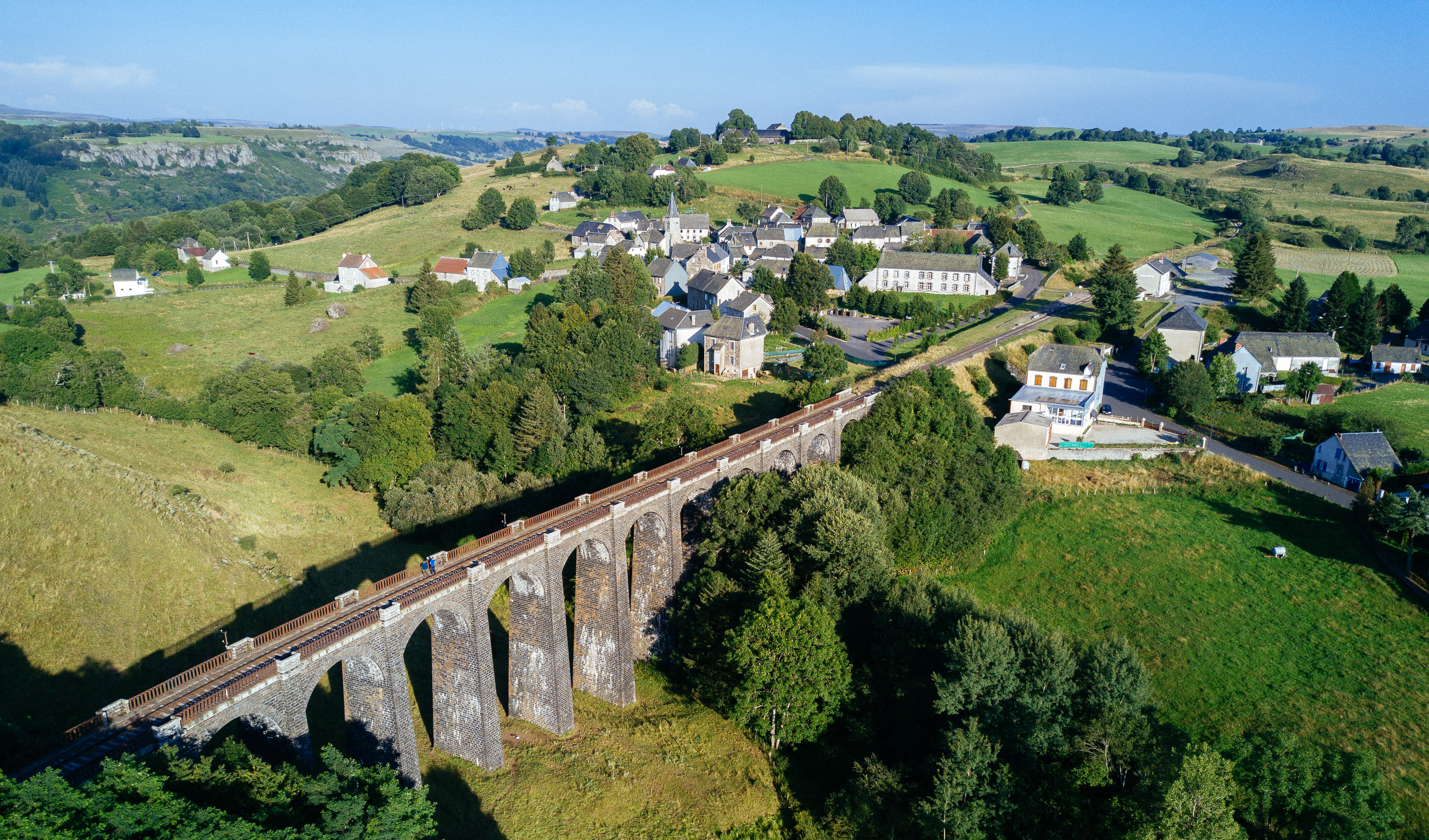 Aerial view of Lugarde, Cantal and its viaduct